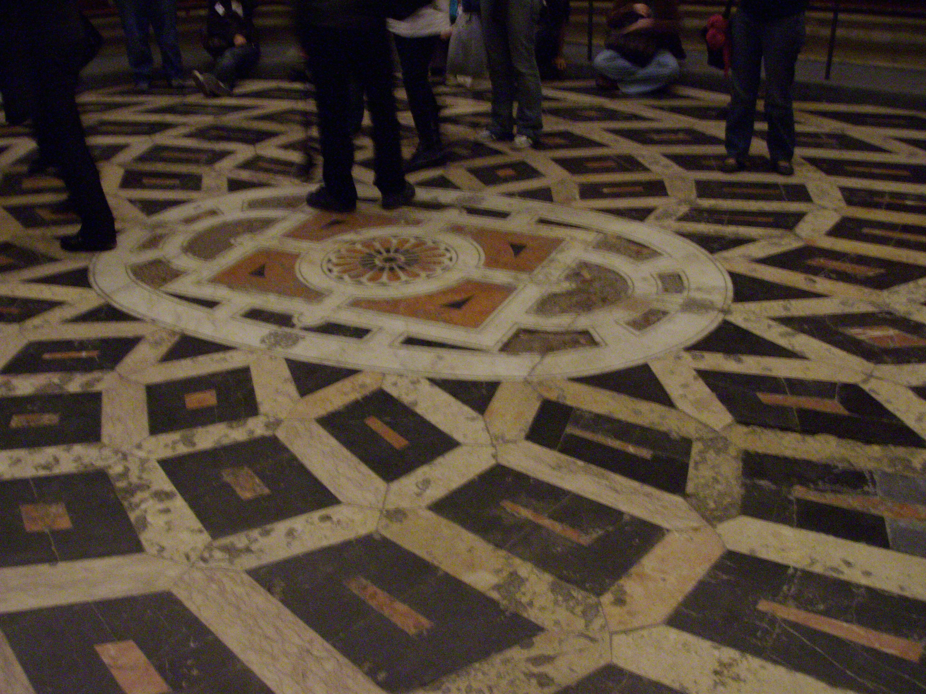 Seville Cathedral's interior in Seville.